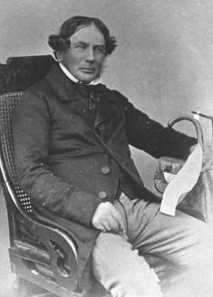 Improved image of John Helder Wedge, 19th century surveyor, explorer and politician of Tasmania. Original uploaded by a family member